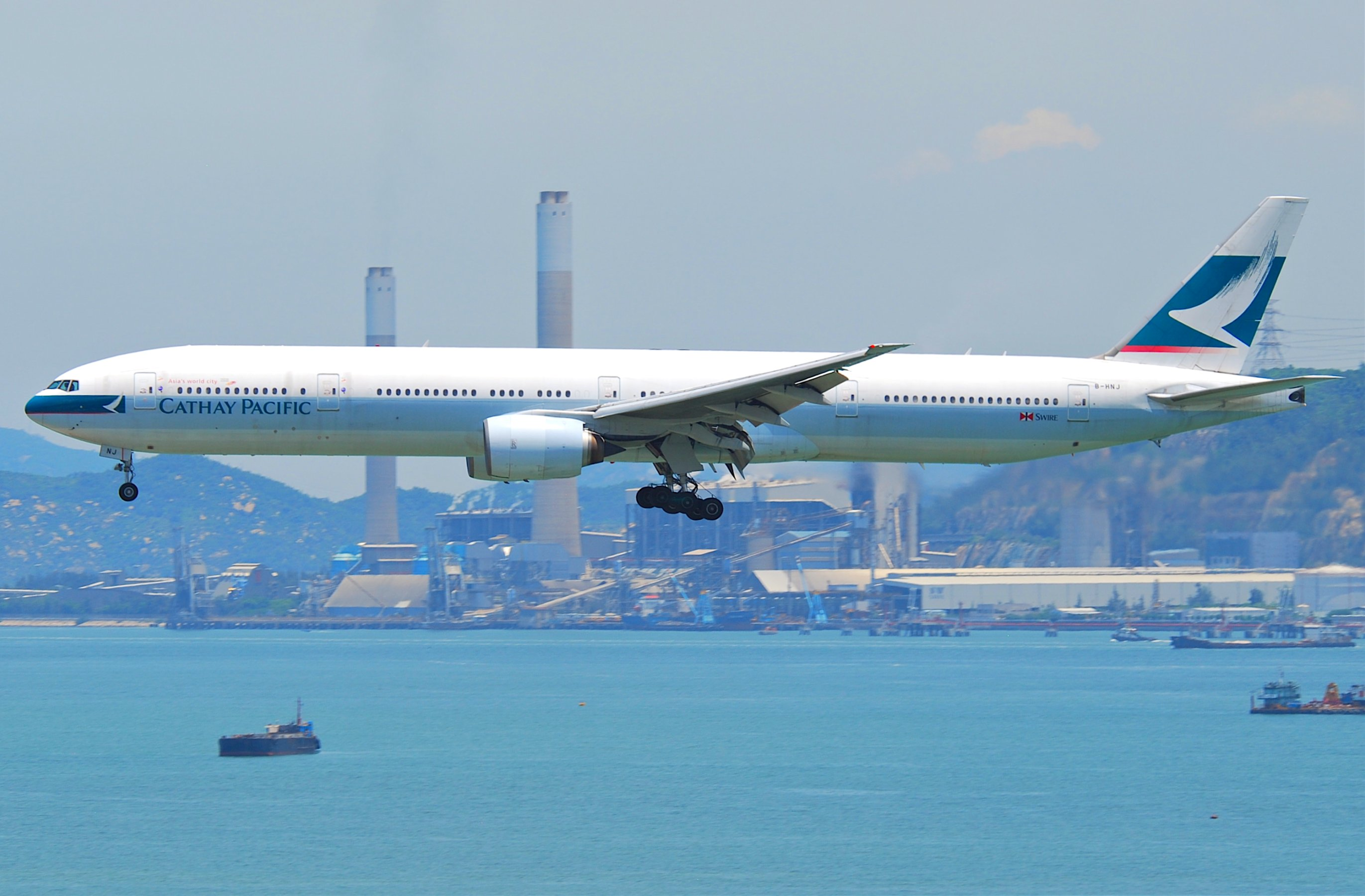 This Boeing 777-367 took its first flight on June 4, 1999...